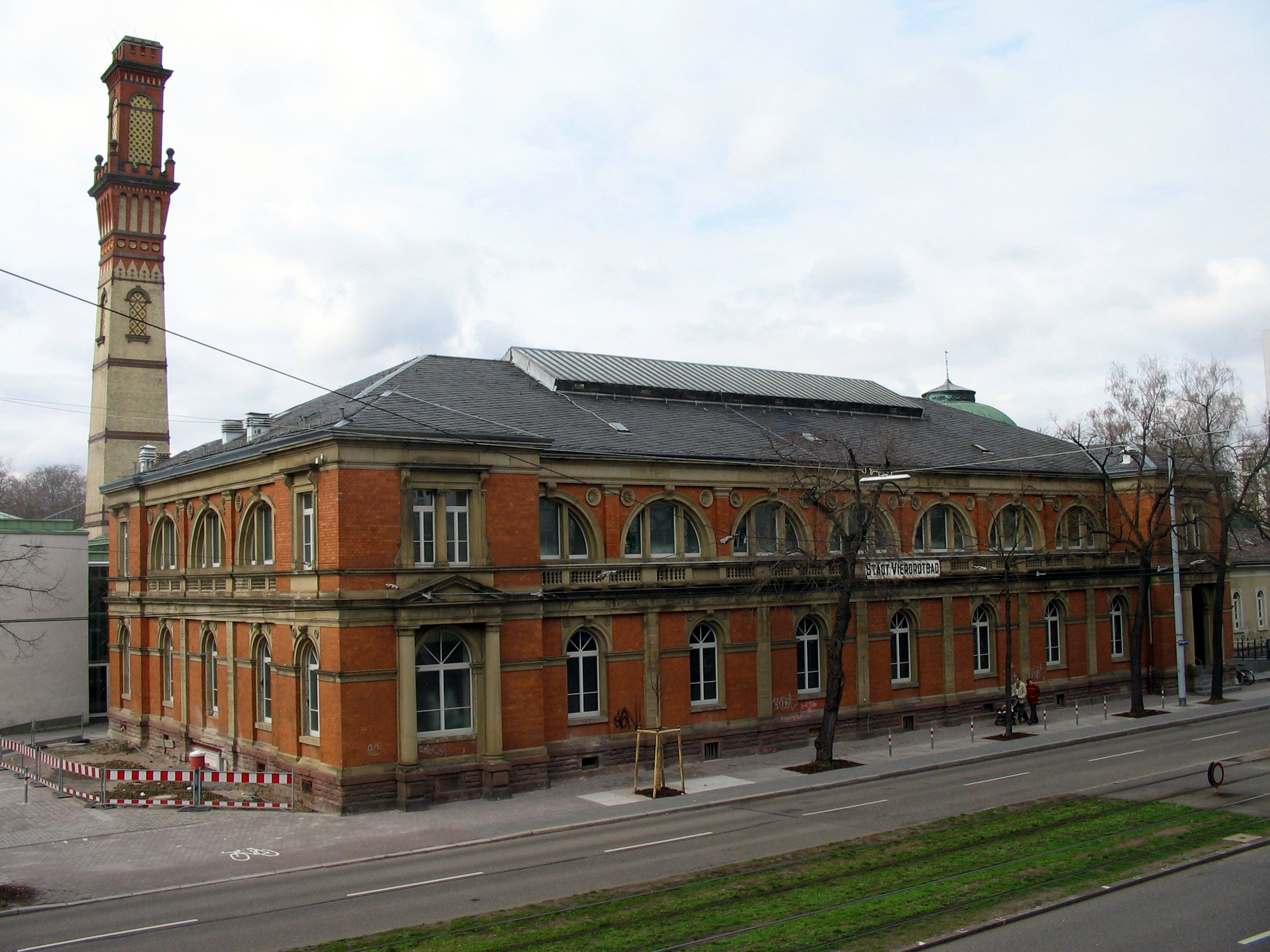 Pool building of the Vierordtbad Karlsruhe Germany